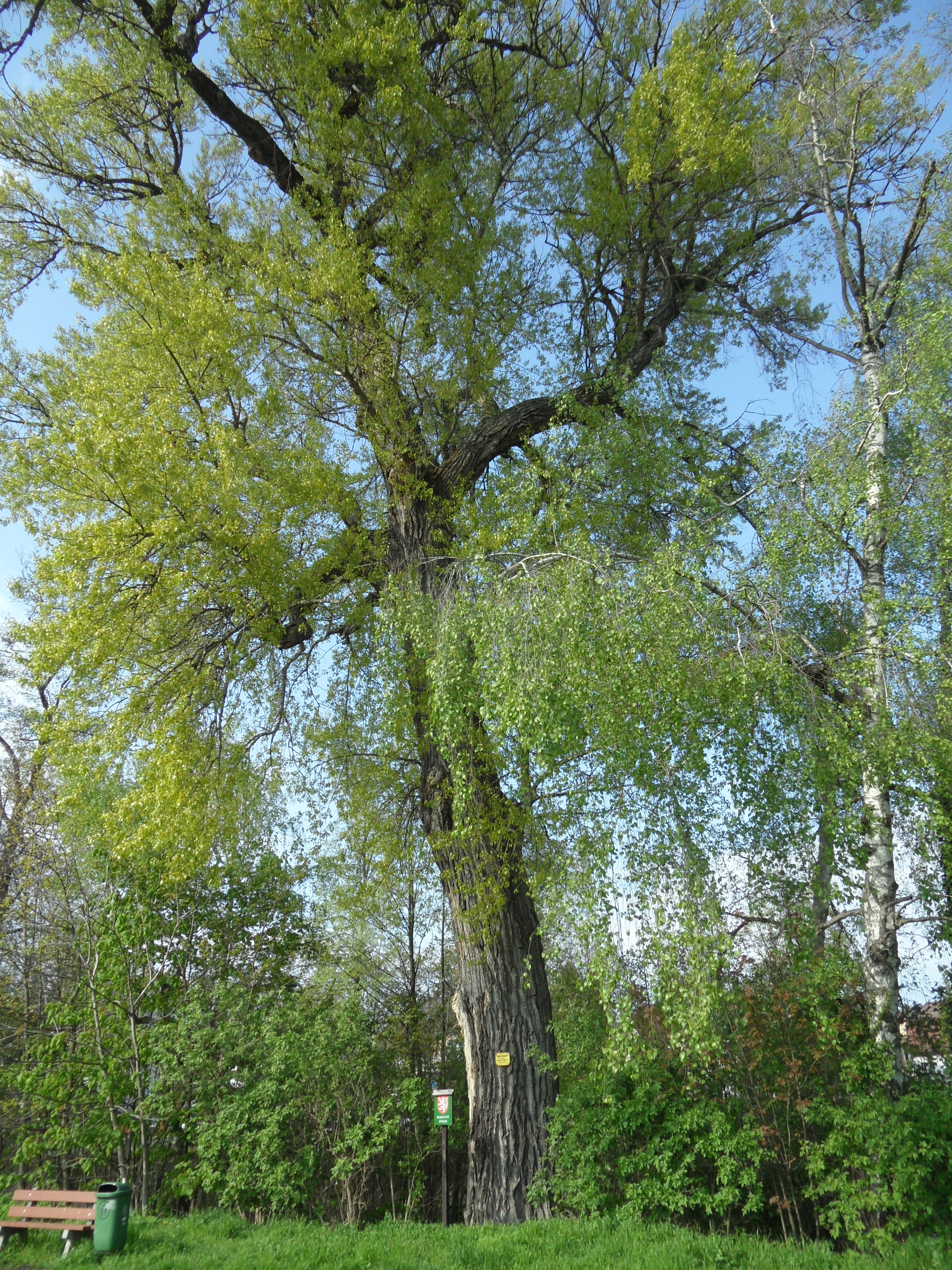 Poděbrady, Famous tree Populus nigra, location Skupice. Overview from South-West, situation in Aprli 2017. Nymburk District, the Czech Republic.